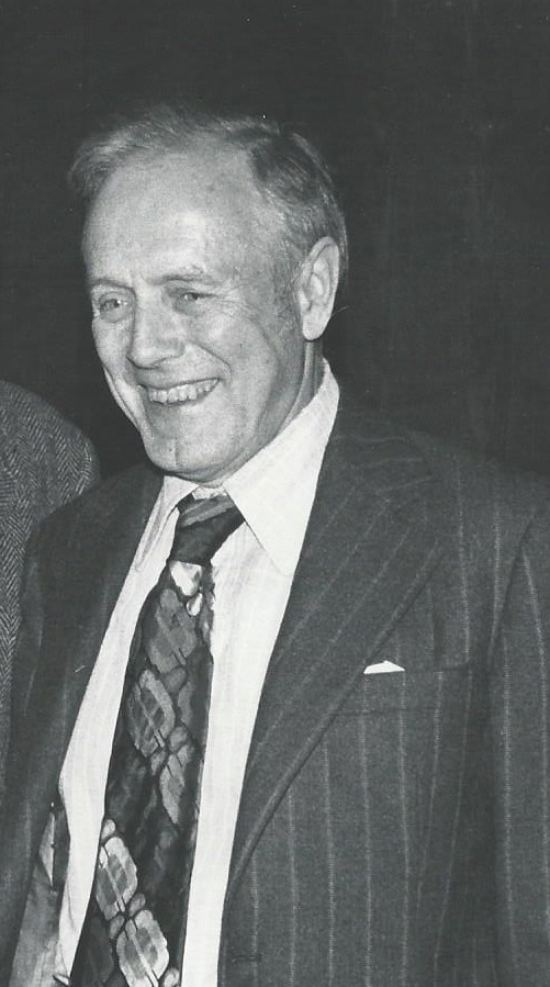 William T. R. Fox, Bryce Professor of the History of International Relations Emeritus at Columbia University. Scan of print likely taken at a 1984 retirement party for Herbert Deane (a Columbia professor and vice provost), by Warner R. Schilling. Image subsequently inherited by the uploader.